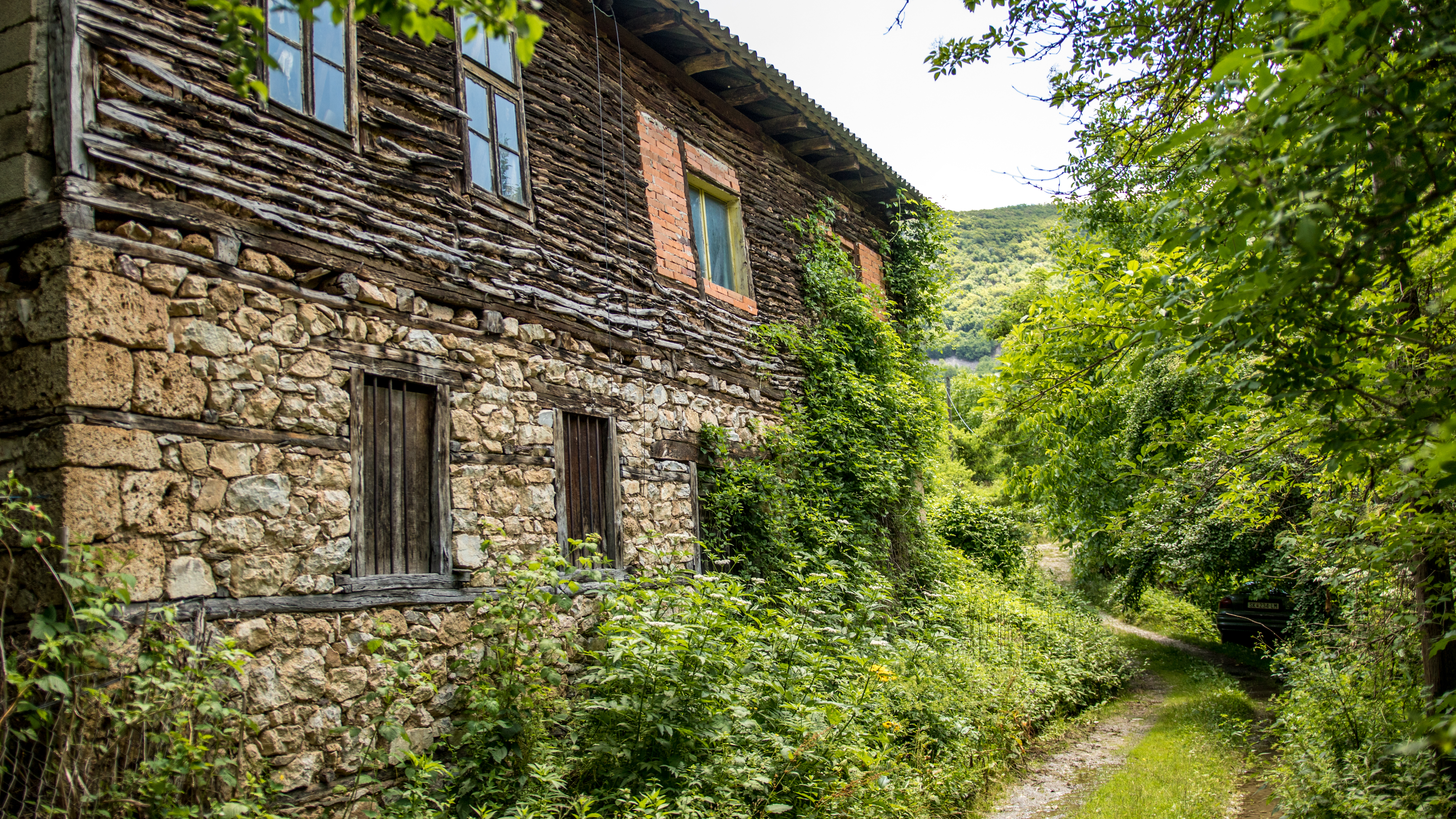 Old traditional house in the village Rosoki